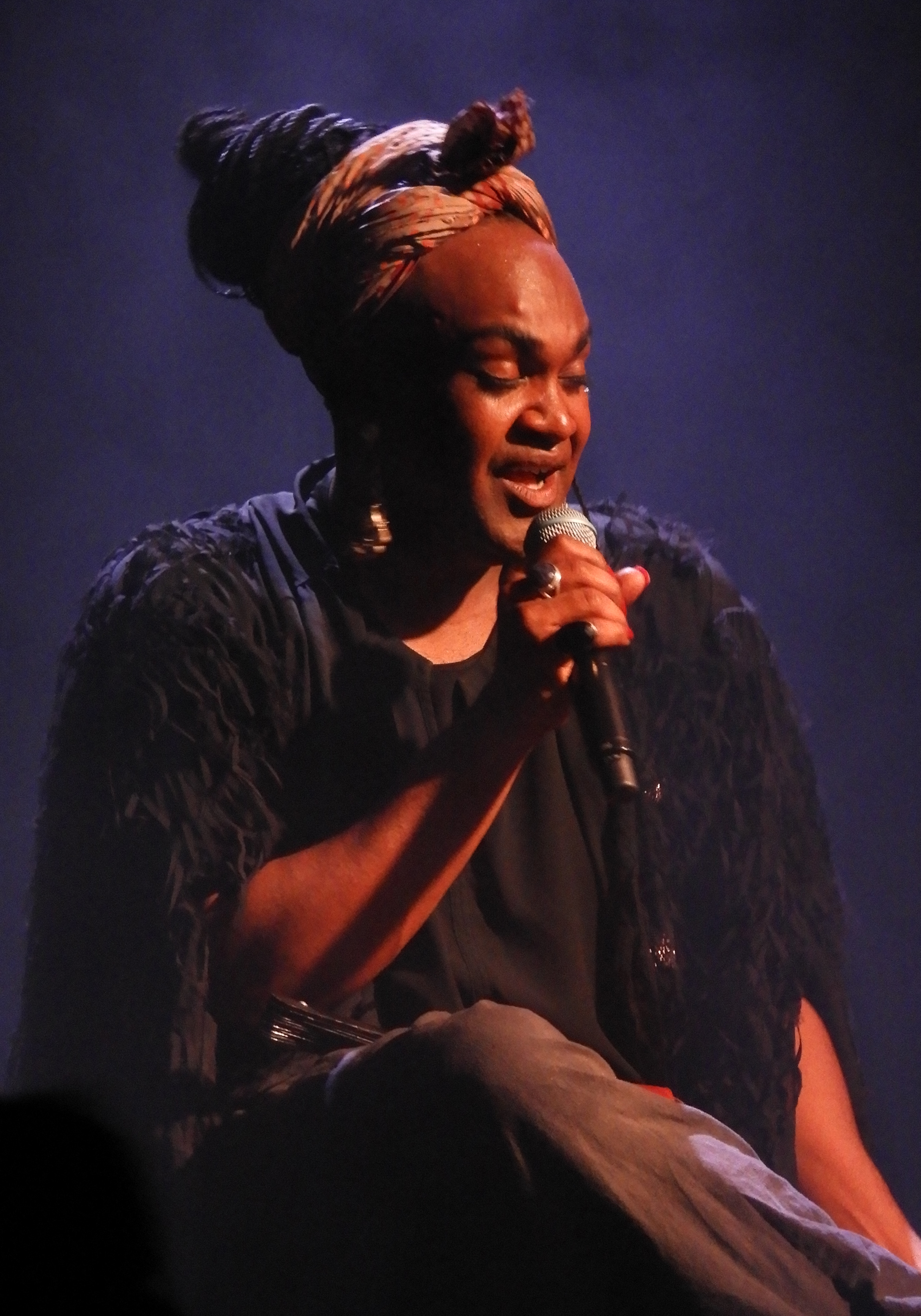 Zaachariaha Fielding sings "Nina" in Adelaide, South Australia during the "2000 and Whatever" Tour.